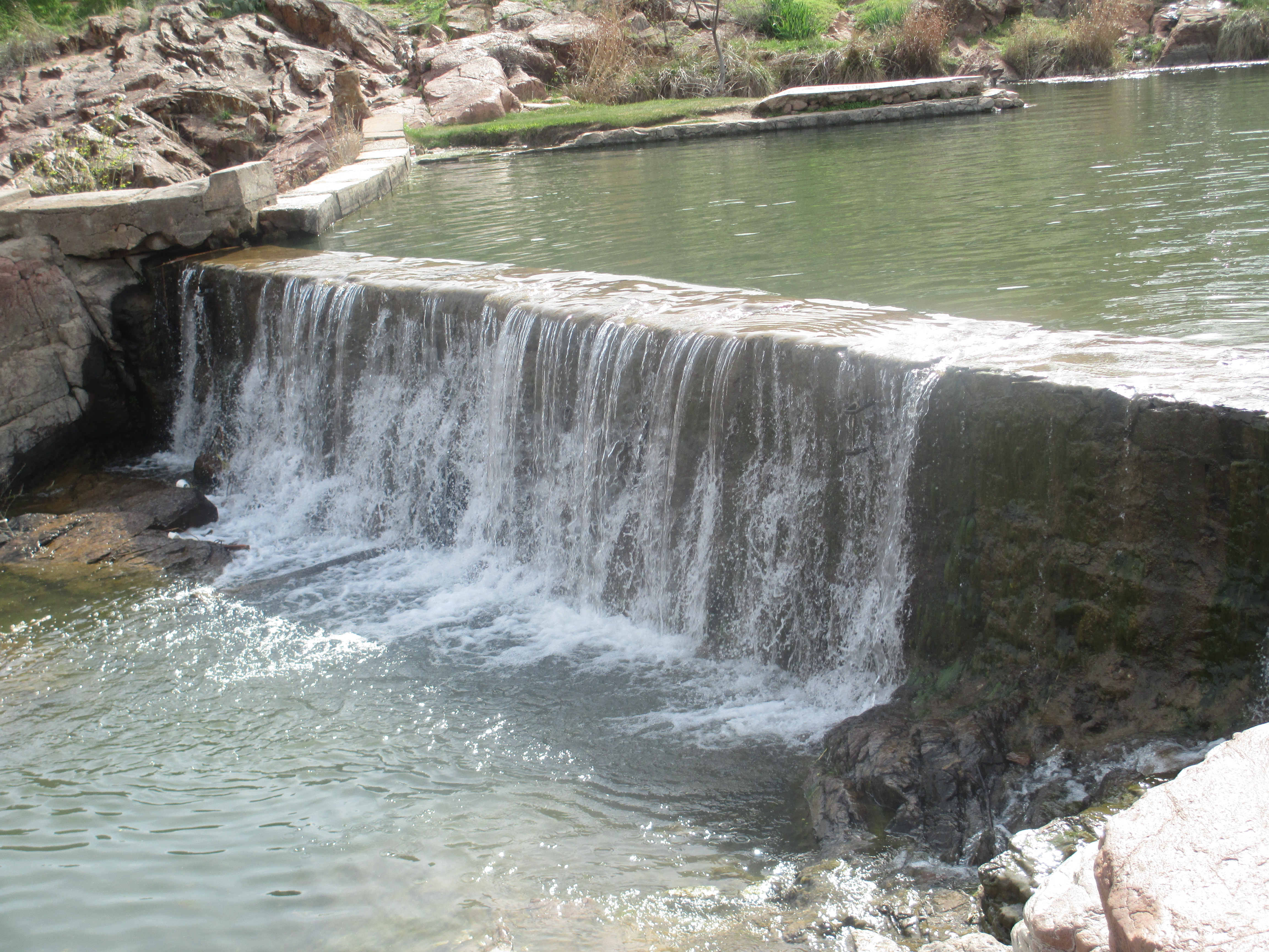 I took photo with Canon camera at Medicine Park, OK, of waterfalls on the Medicine Park creek. April 6, 2013 Billy Hathorn (talk) 15:03, 9 April 2013 (UTC)